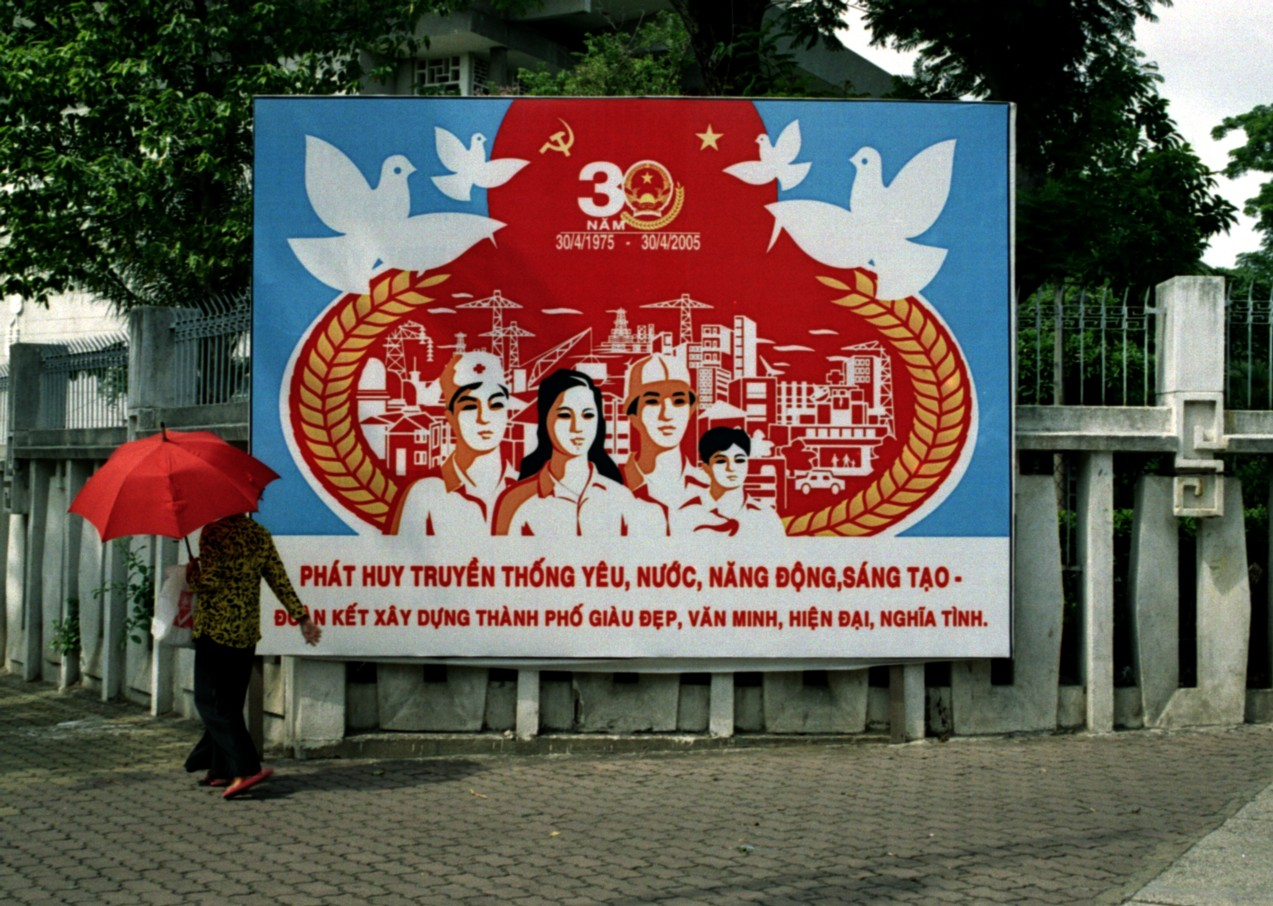 Communist Party of Vietnam billboard marking the 30th Anniversary of the reunification of the country in 1975. Ho Chi Minh City, Vietnam (August 2005). Photo by Peter Rimar.